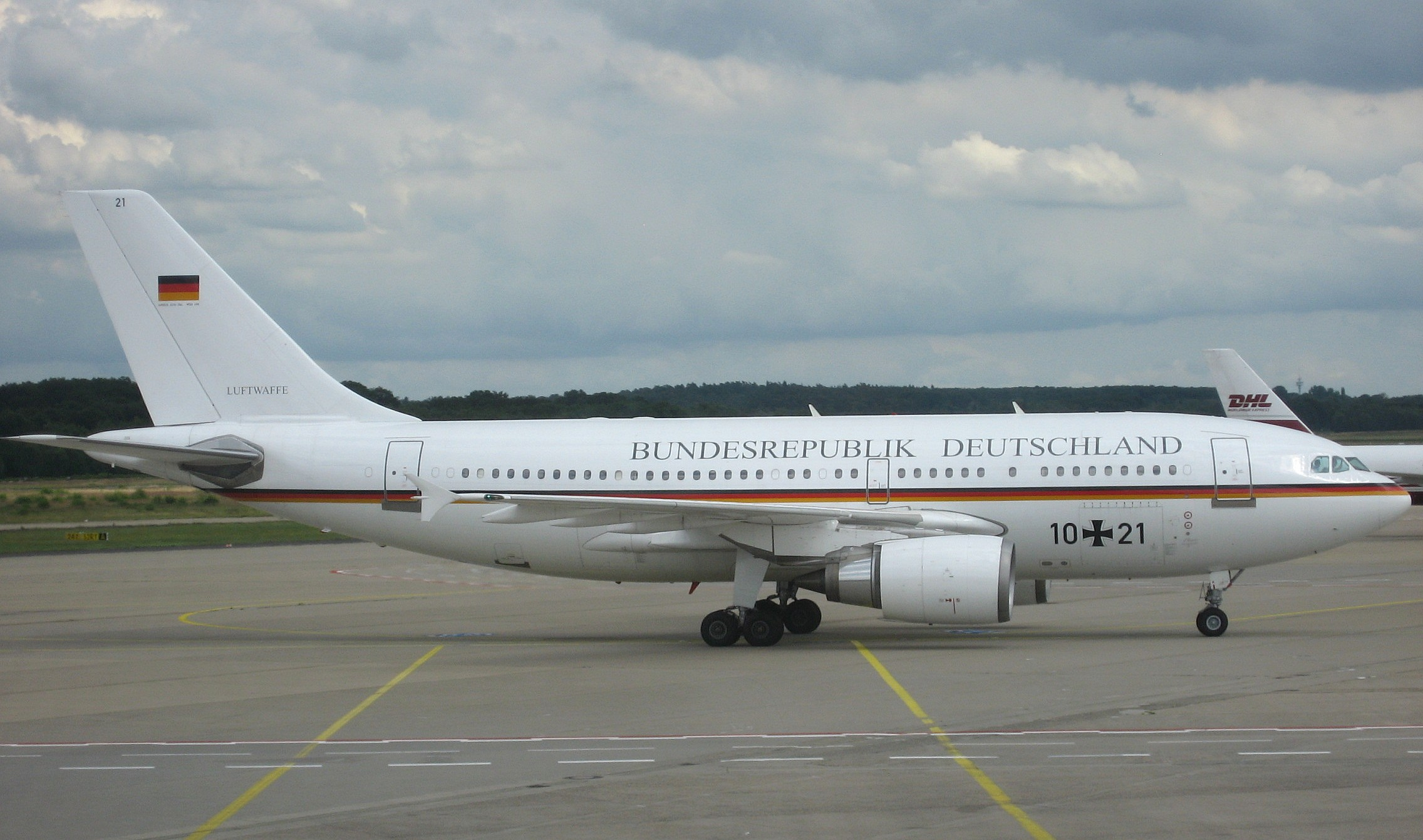 Airbus A310-304 in VIP's equipment 10+21 of the Flugbereitschaft BMVg on the Cologne/Bonn Airport; official government machine of the Federal Republic of Germany; originally delivered in the 6/26/1989 to the Interflug (DDR-ABA; 10/3/1990—8/27/1991 D-AOAA; then 10+21 of the German Air Force)